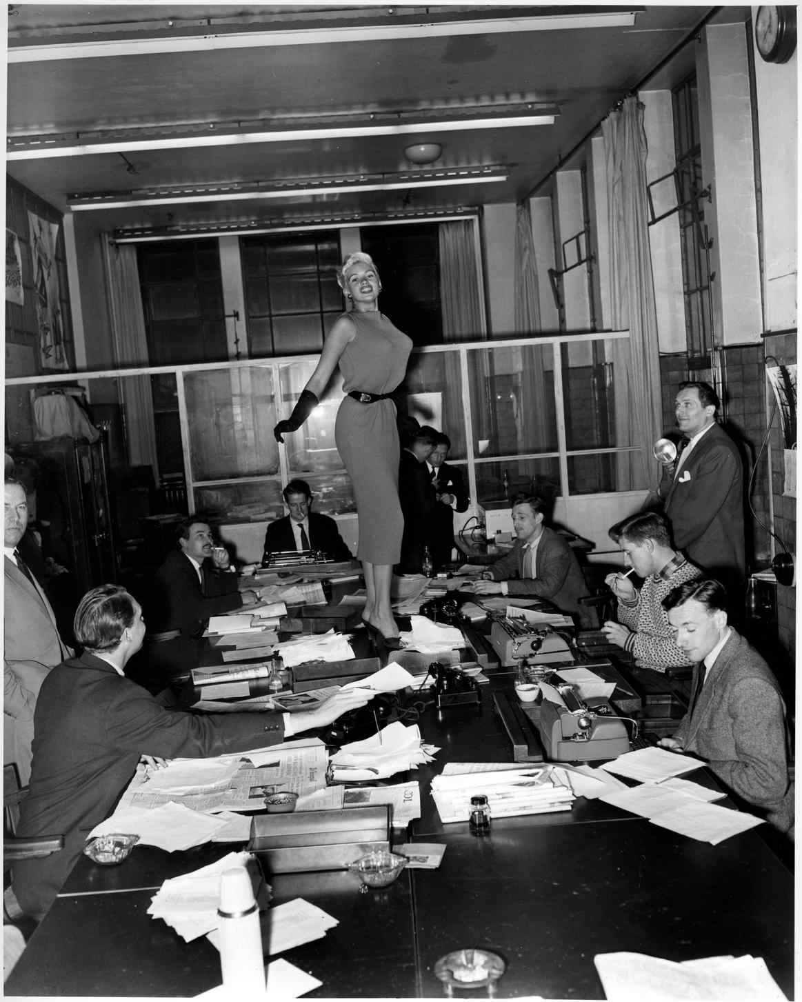 Jayne Mansfield visiting Dutch newspaper De Telegraaf, Oct. 1957